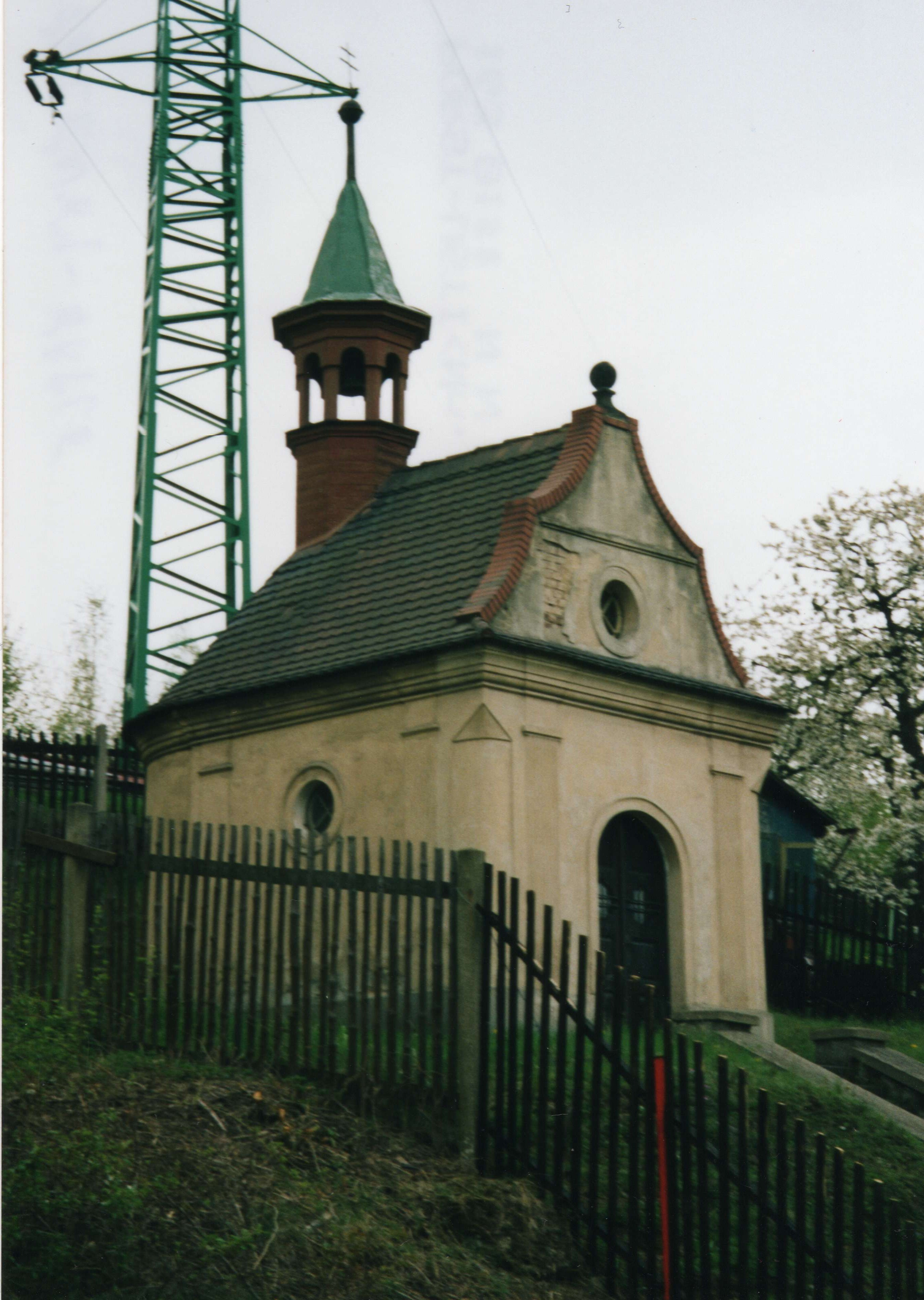 Chapel in Želénky, Zabrušany, Teplice District, Ústí nad Labem Region, Czech Republic